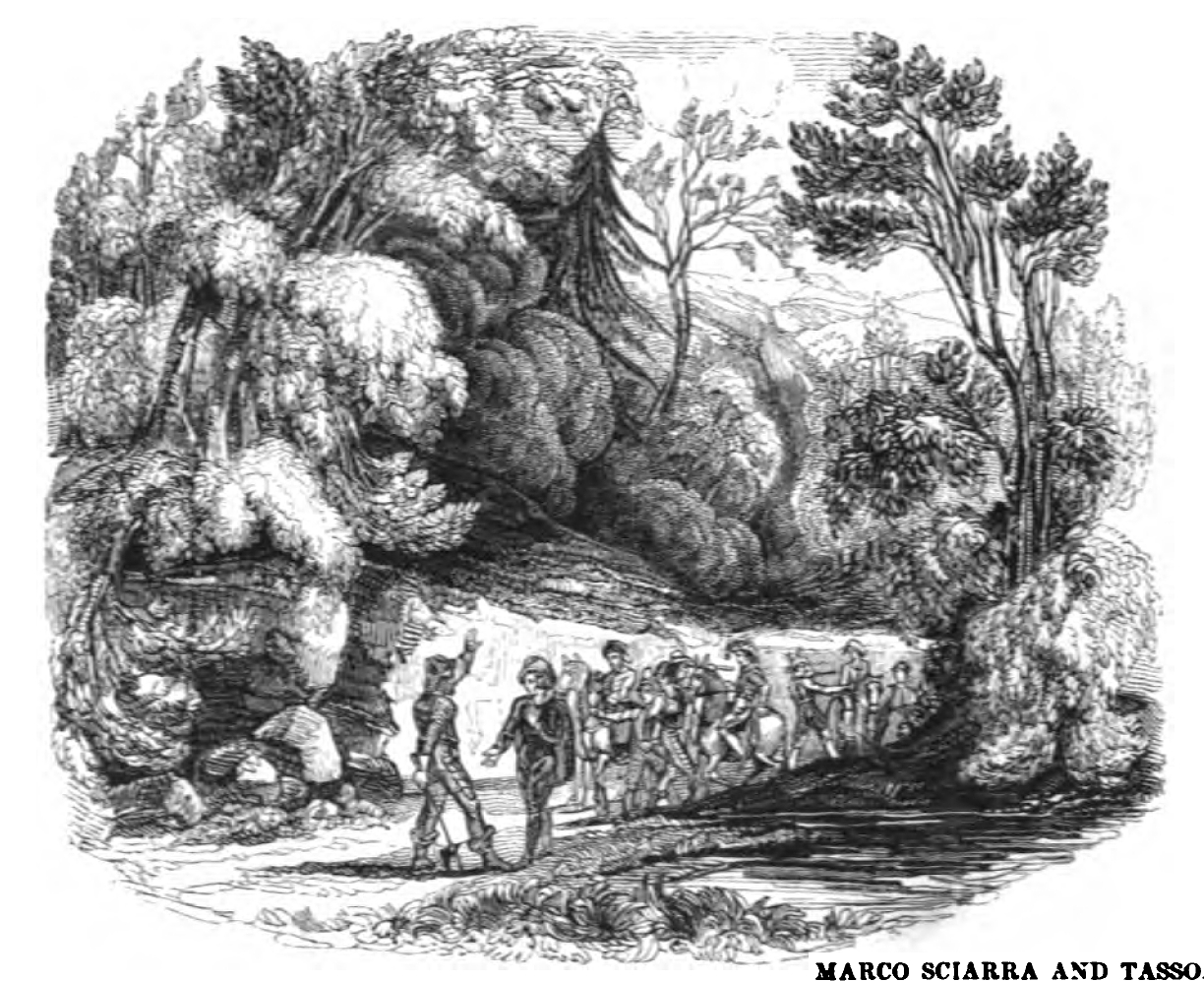 Brigand Marco Sciarra captures Torquato Tasso